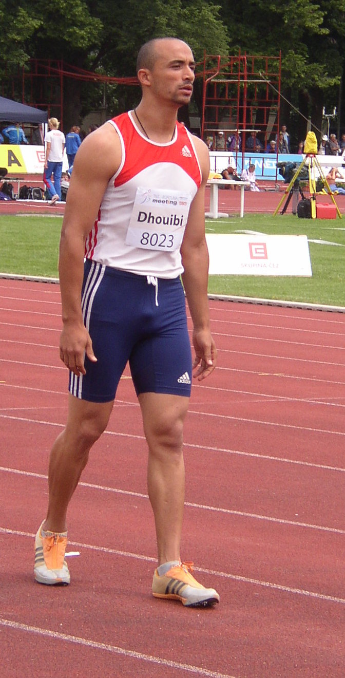 Athlete Hamdi Dhouibi of Tunisia prepares for his attempt in long jump during men's decathlon at 4th edition of the TNT - Fortuna Meeting (IAAF World Combined Events Challenge Meeting, Sletiště Stadium, Kladno, Czech Republic, 15 June 2010, 12:52).